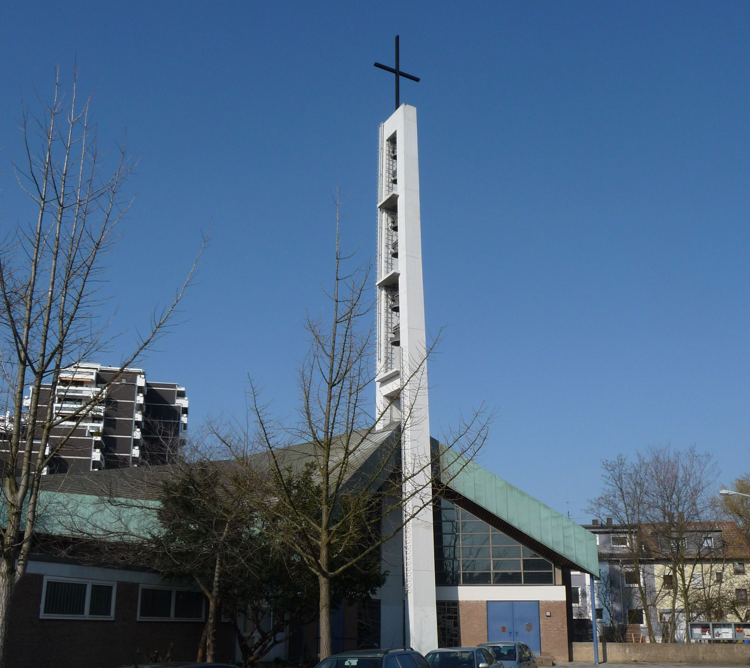 Church in Ludwigshafen, Germany